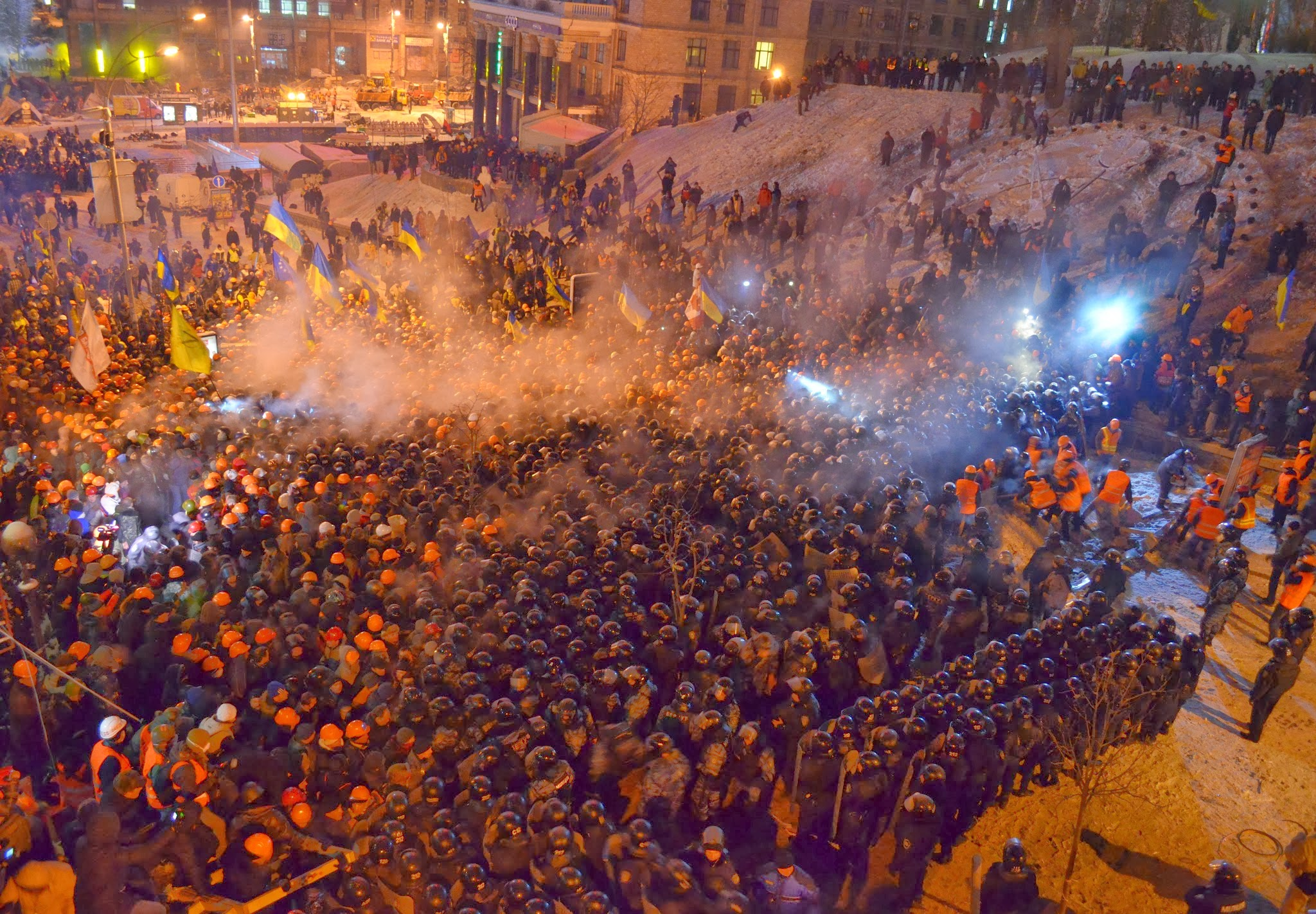 Euromaidan in Kyiv on the night of 11 December 2013 (night of the second attack)